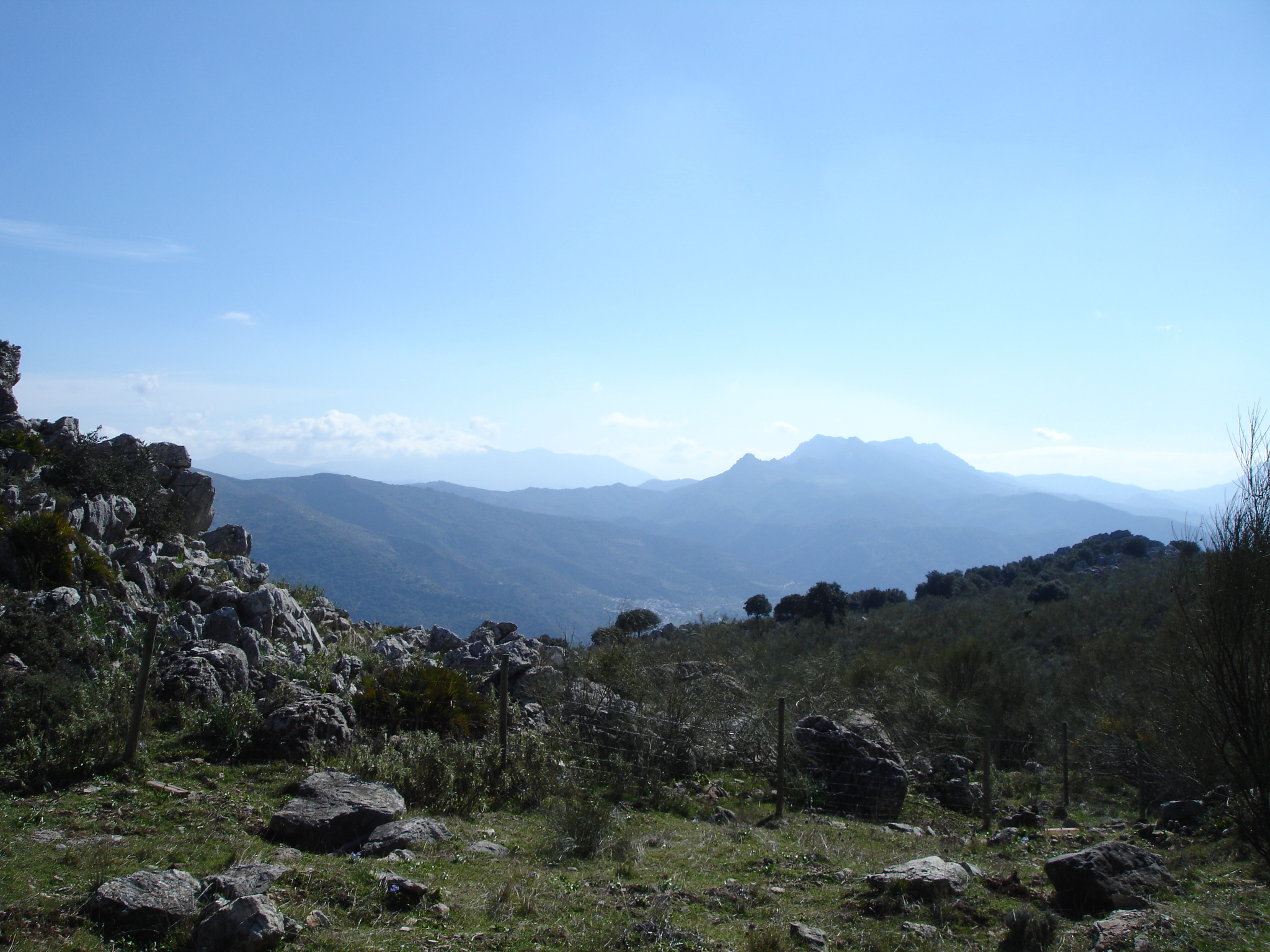 Cortes de la Frontera, Andalusia (Spain) Cortes de la Frontera, Andalucía (España)